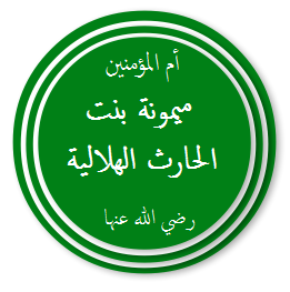 Maymunah bint al-Harith